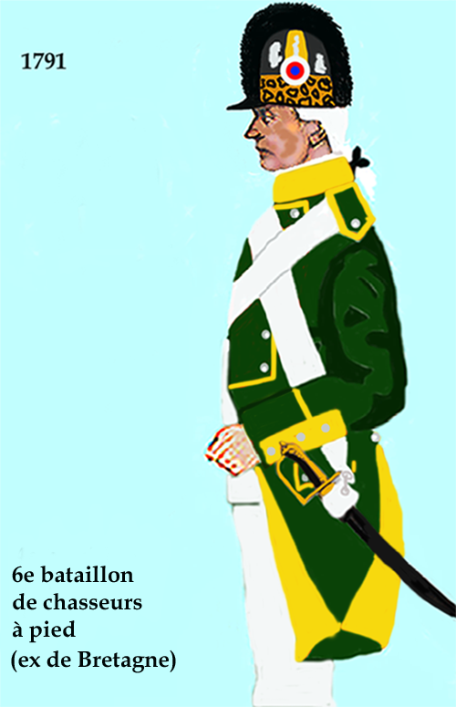 Uniforms of the french rifles of foot in 1791